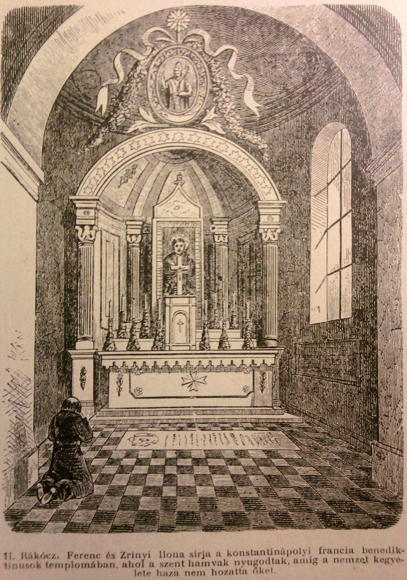 Istambul church of Saint Benedict, first crypt of Rákóczi